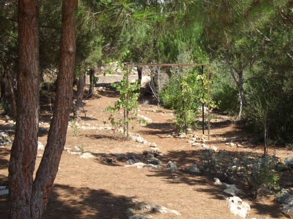 Tal Menashe Bustan Bereshit